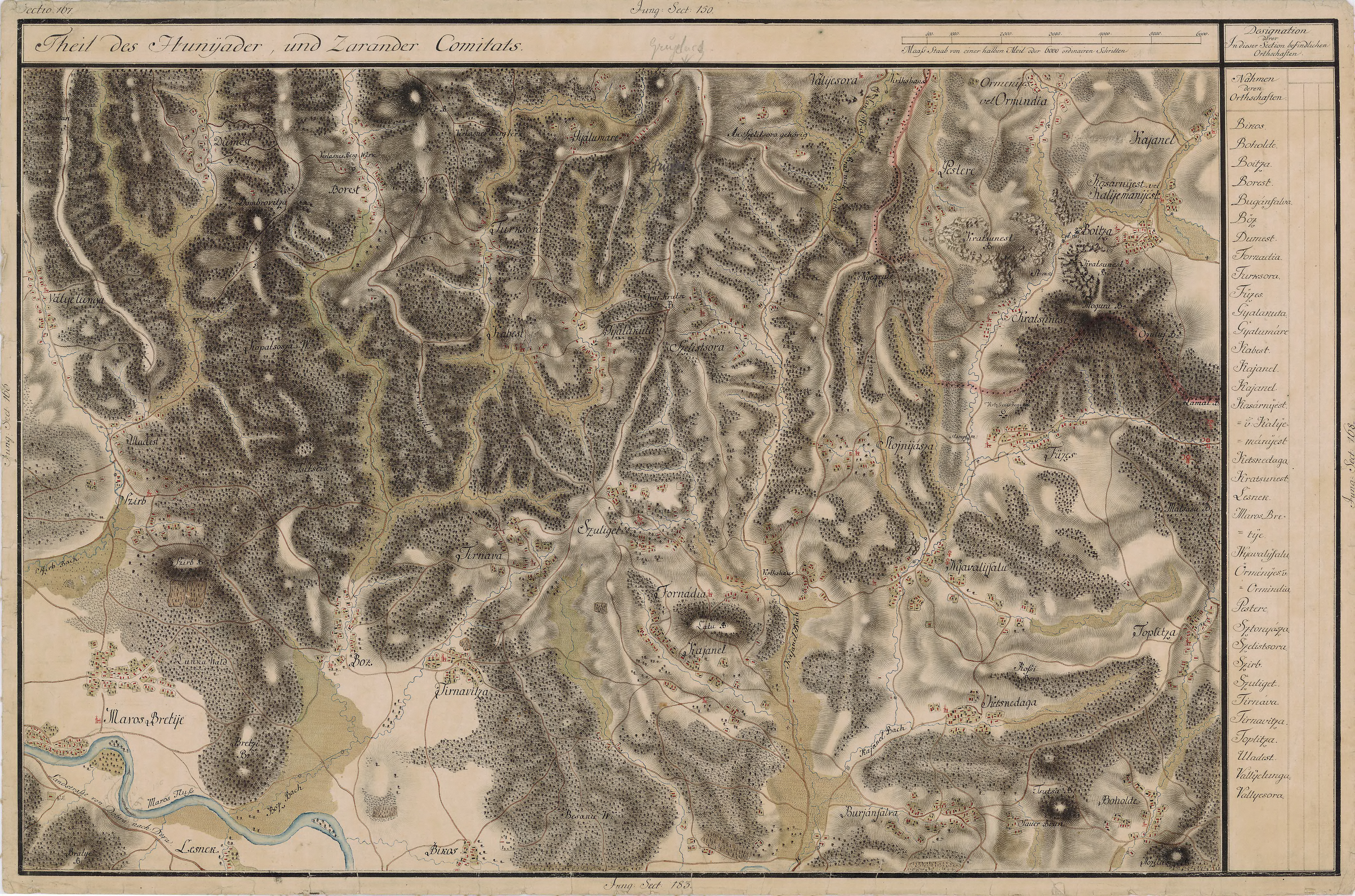 Grand Duchy of Transylvania, 1769-1773. Josephinische Landaufnahme pg.167